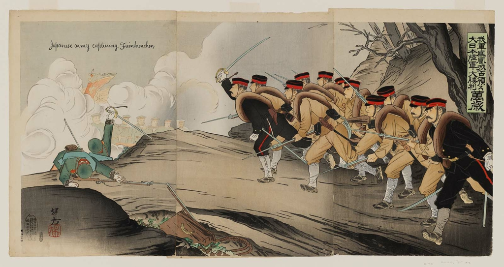 Our Troops Occupy Fenghuangcheng, a Great Victory for the Great Japanese Army, Hurrah! (Waga gun Hôôjô senryô su, Dai Nihon rikugun daishôri, banzai)